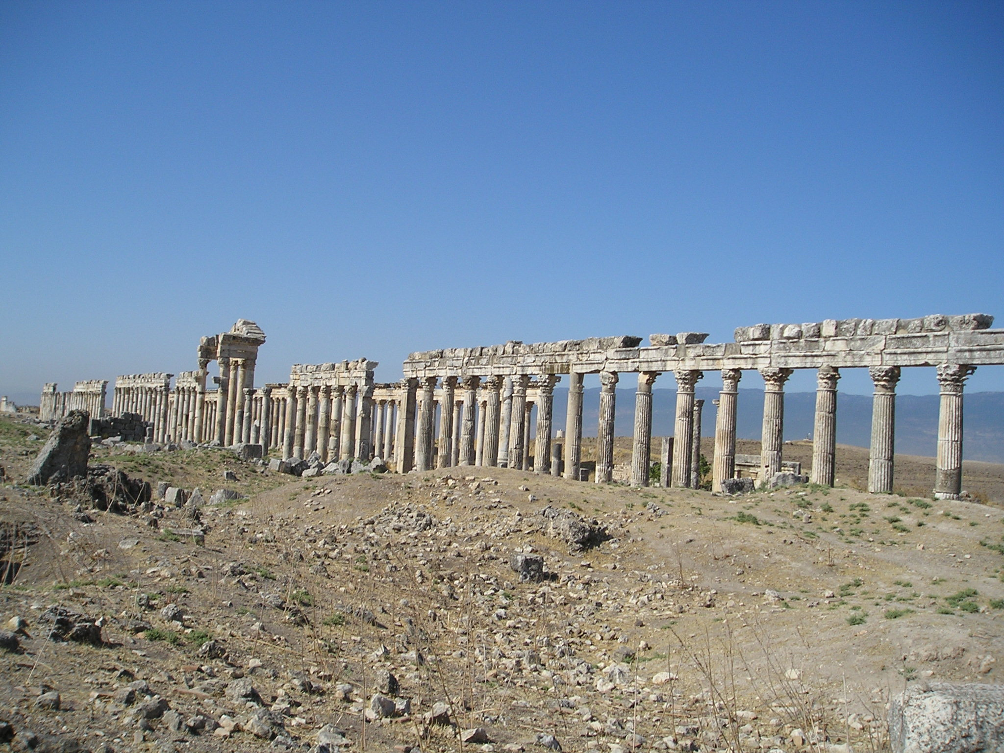 Apamea, Syria - a view of Cardo from east.